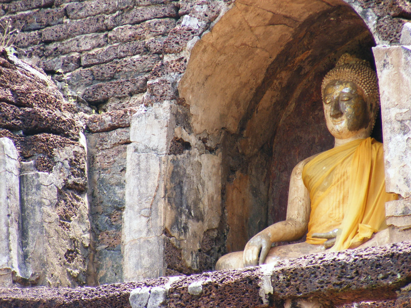 Si Satchanalai historical parkLocation: Si Satchanalai, Sukothai Province, Thailand.